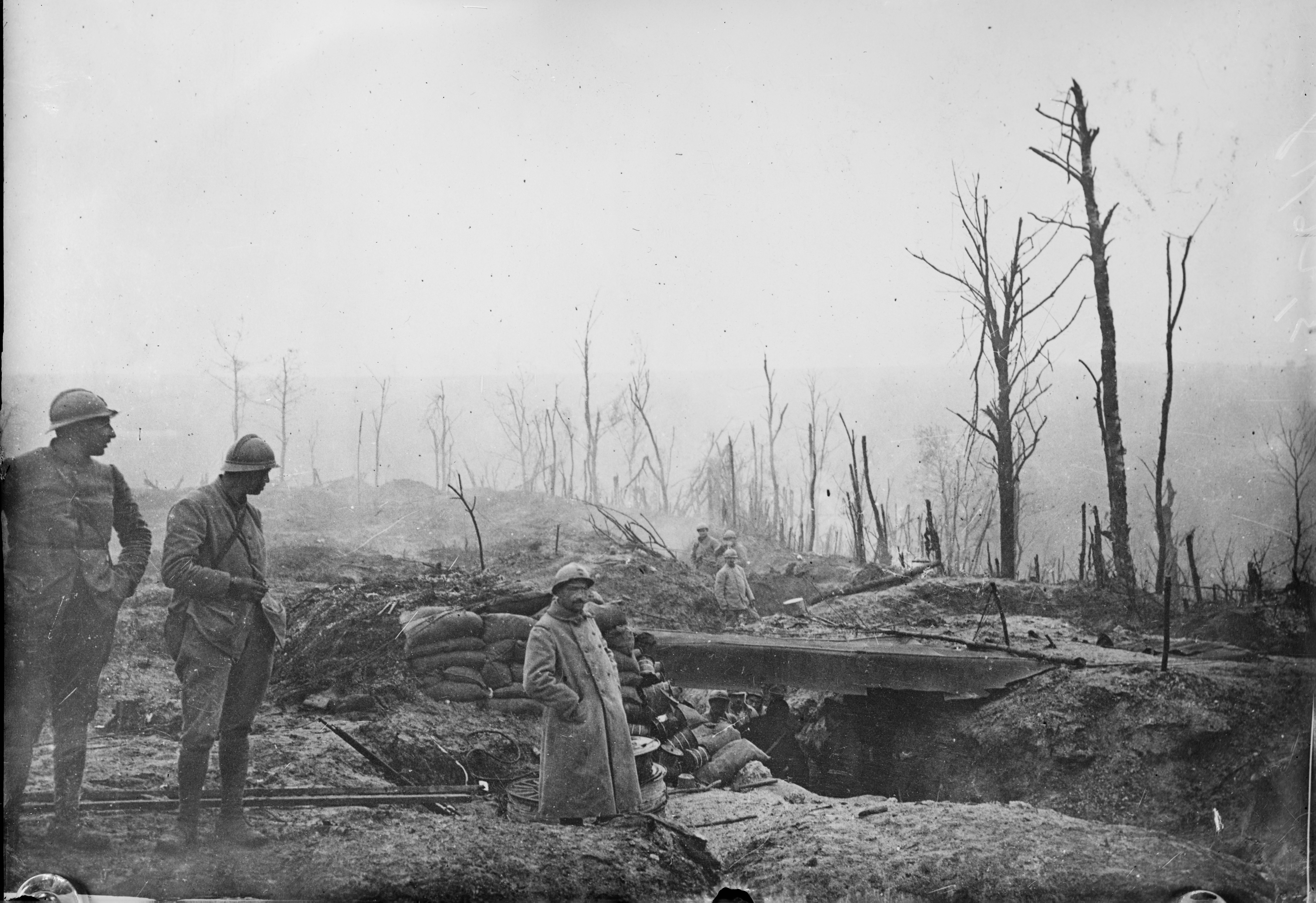 French soldiers photographed in their trench